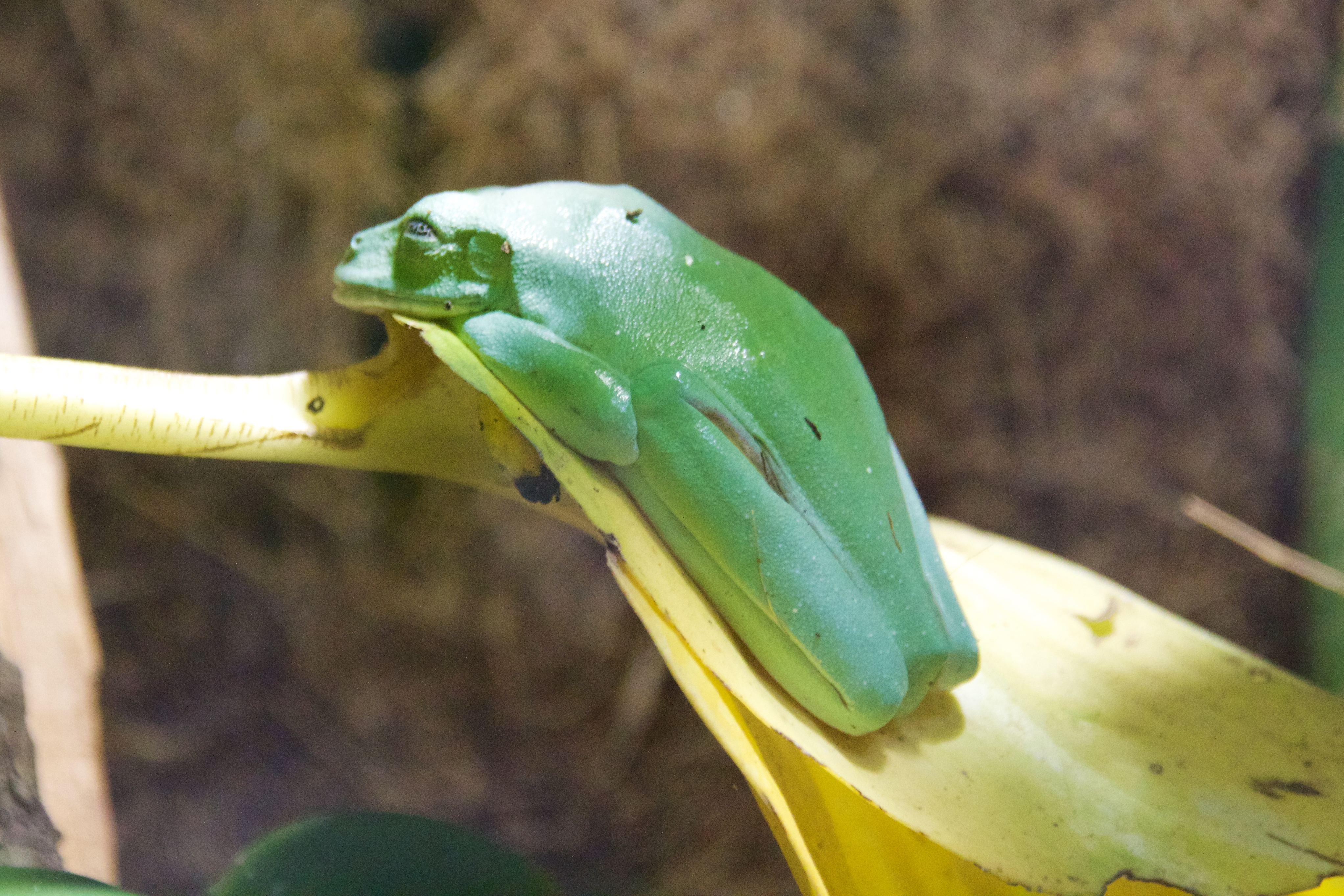 Morelet's Tree Frog. Agalychnis moreletii. At Chester Zoo.